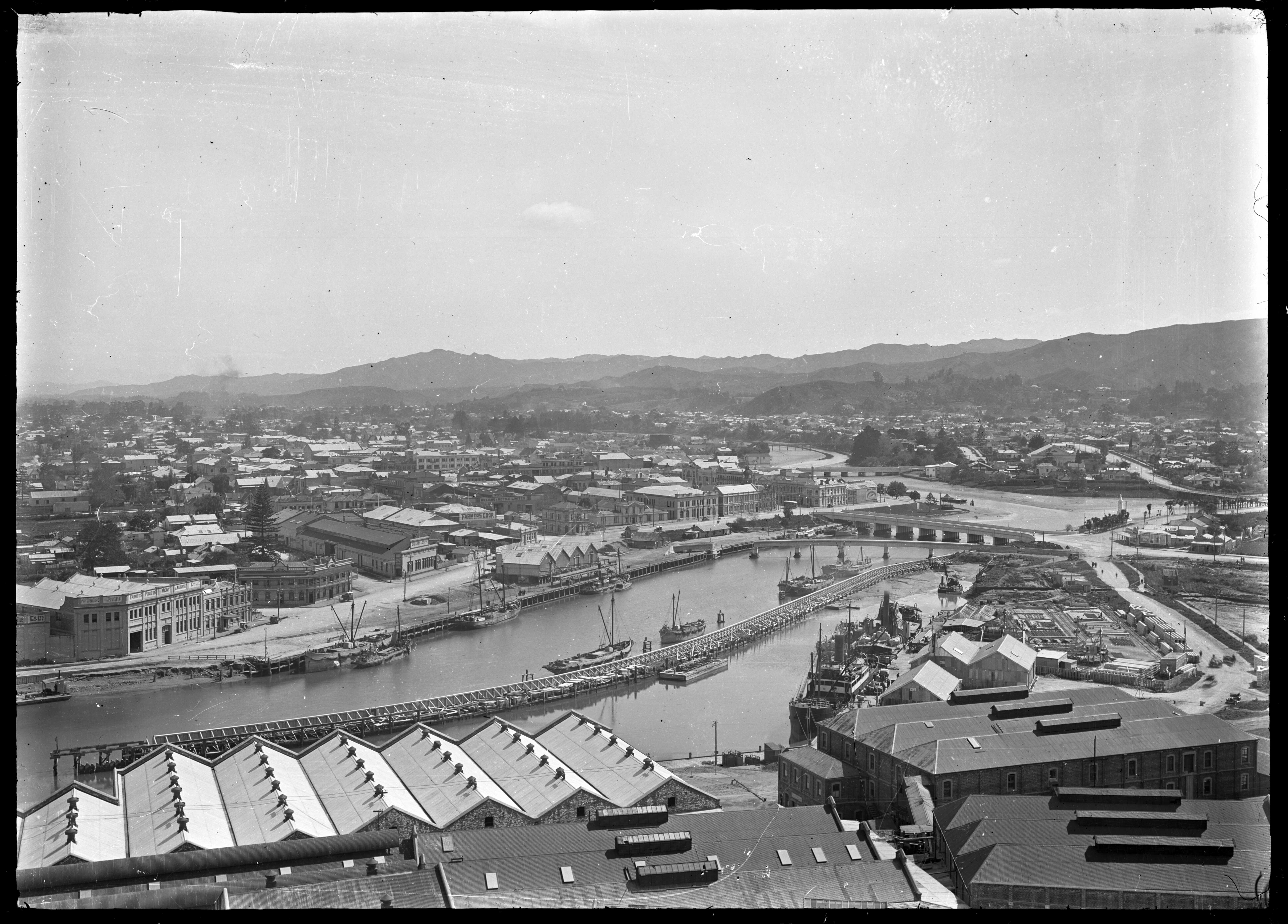 View over Gisborne showing the Turanganui River and harbour with ships and small boats berthed, industrial buildings, and office buildings. Photographed by Albert Percy Godber circa 1920s.